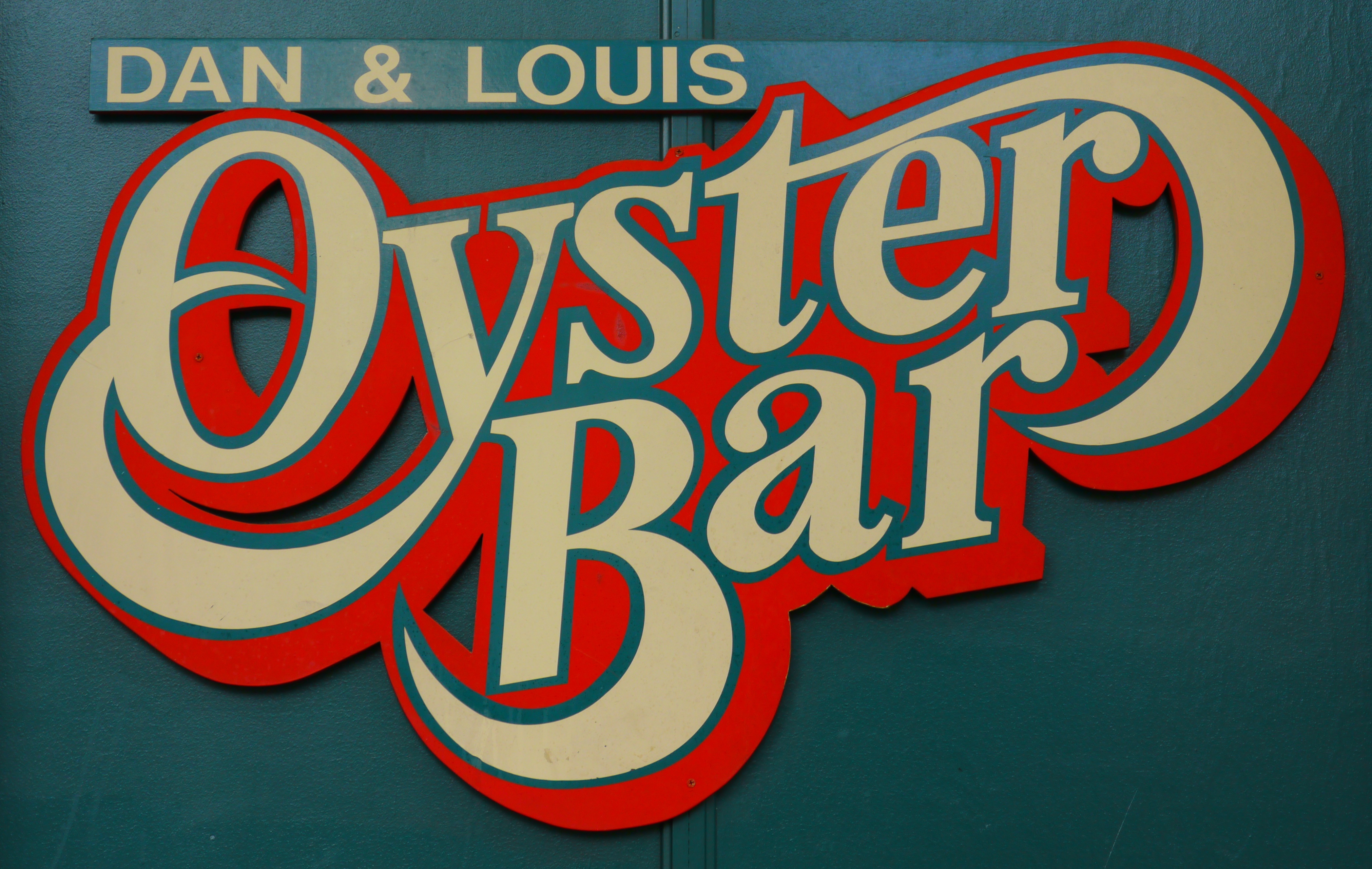 Sign outside Dan and Louis Oyster Bar in Portland, Oregon